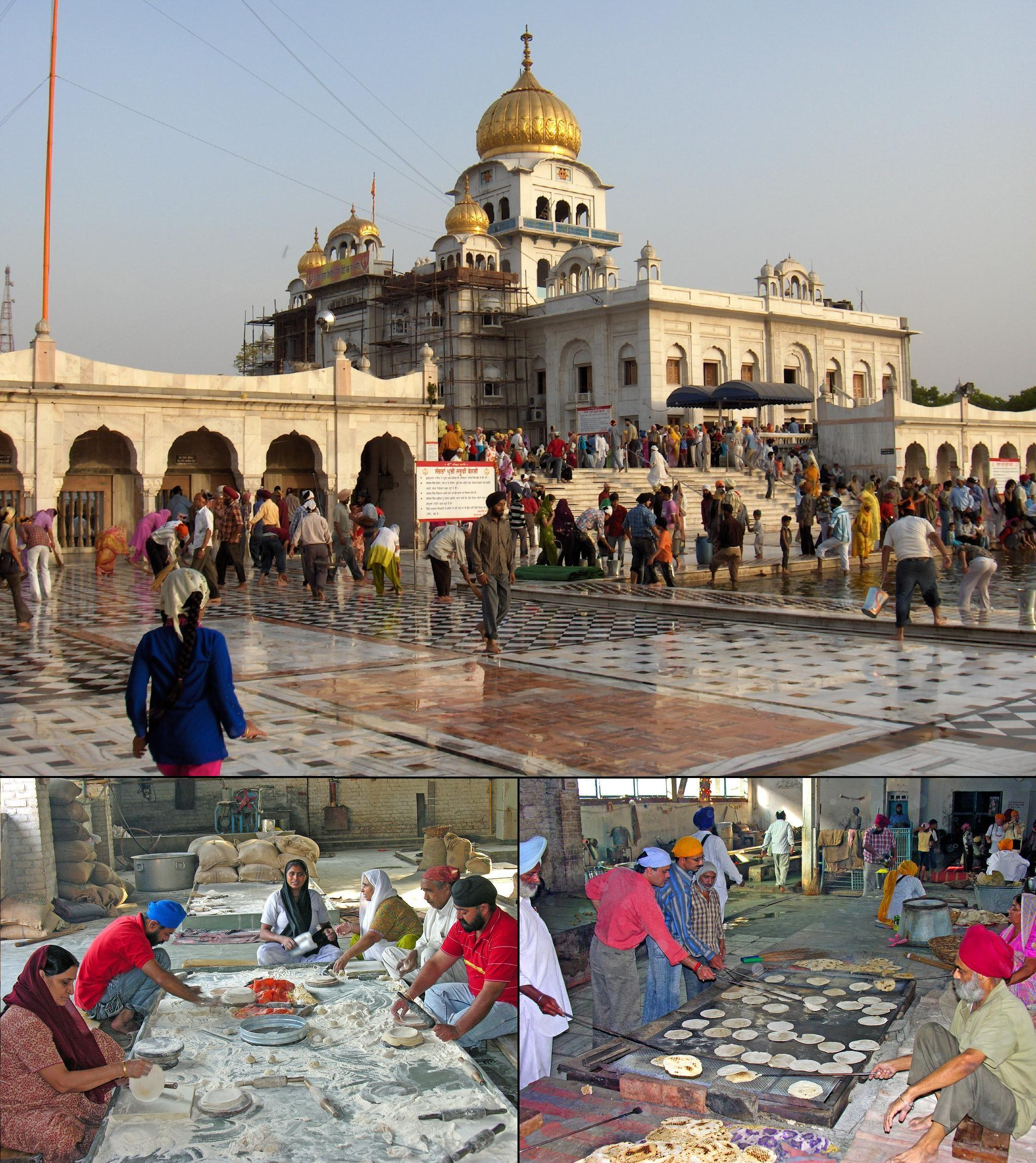 Bangla Sahib Sikh Gurdwara, Delhi. Bottom (Left and Right): Volunteers Prepare Roti Bread for the Worshippers. Top: Worshippers arrive at the Gurdwara